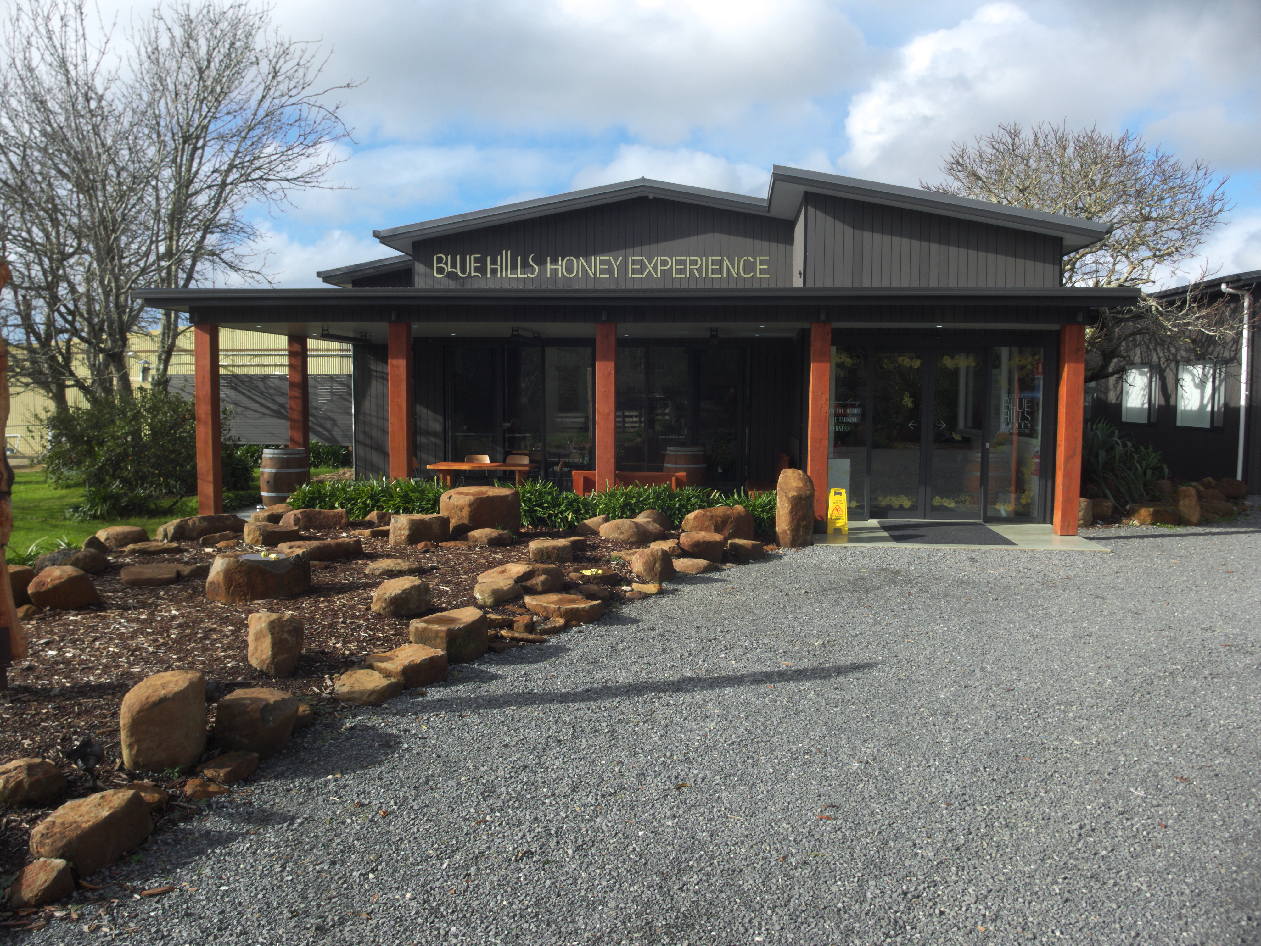 Blue Hills Honey in Mawbanna Road, Tasmania. Cafe, exhibition and honey bottling plant.